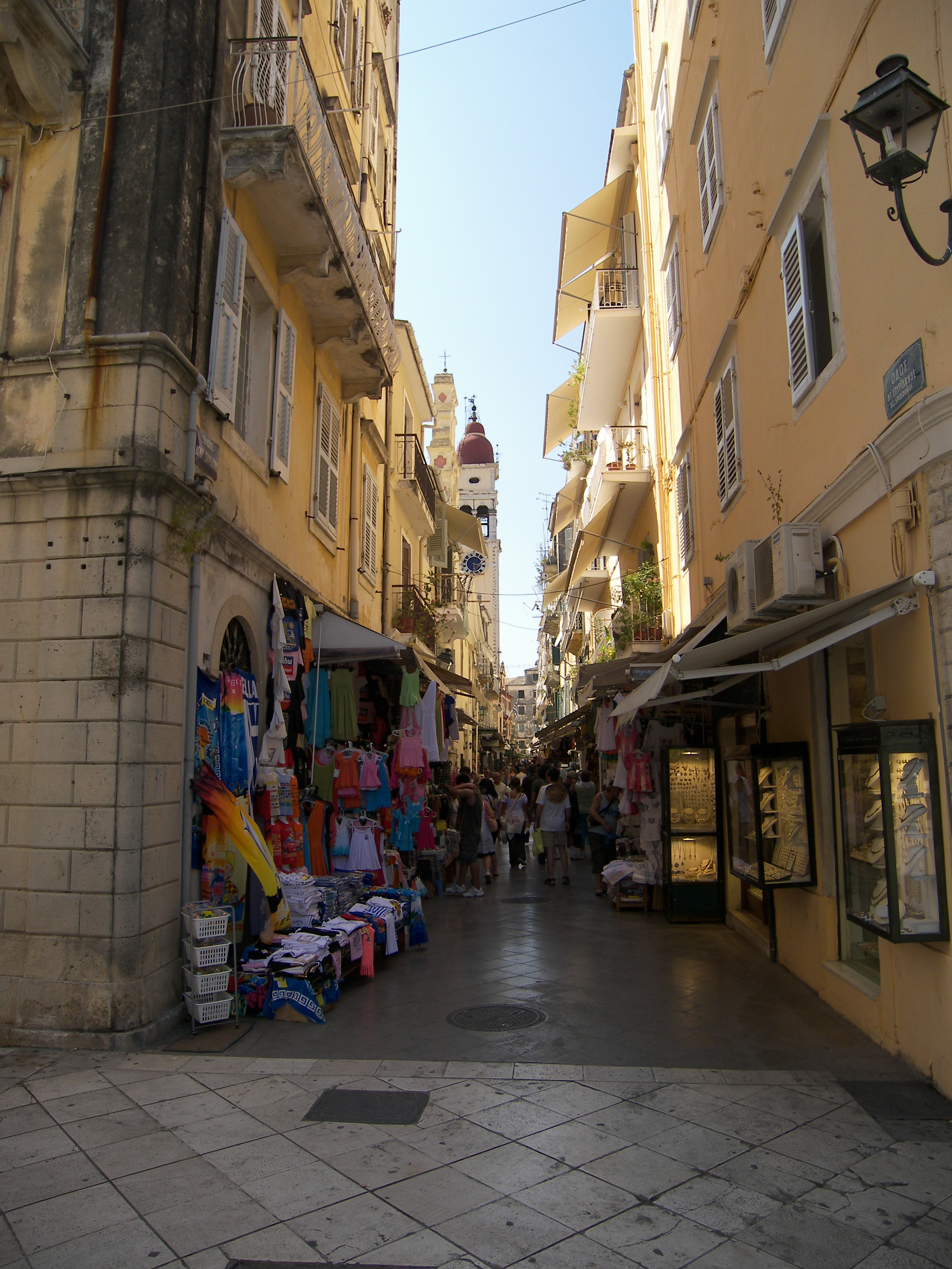 Filename